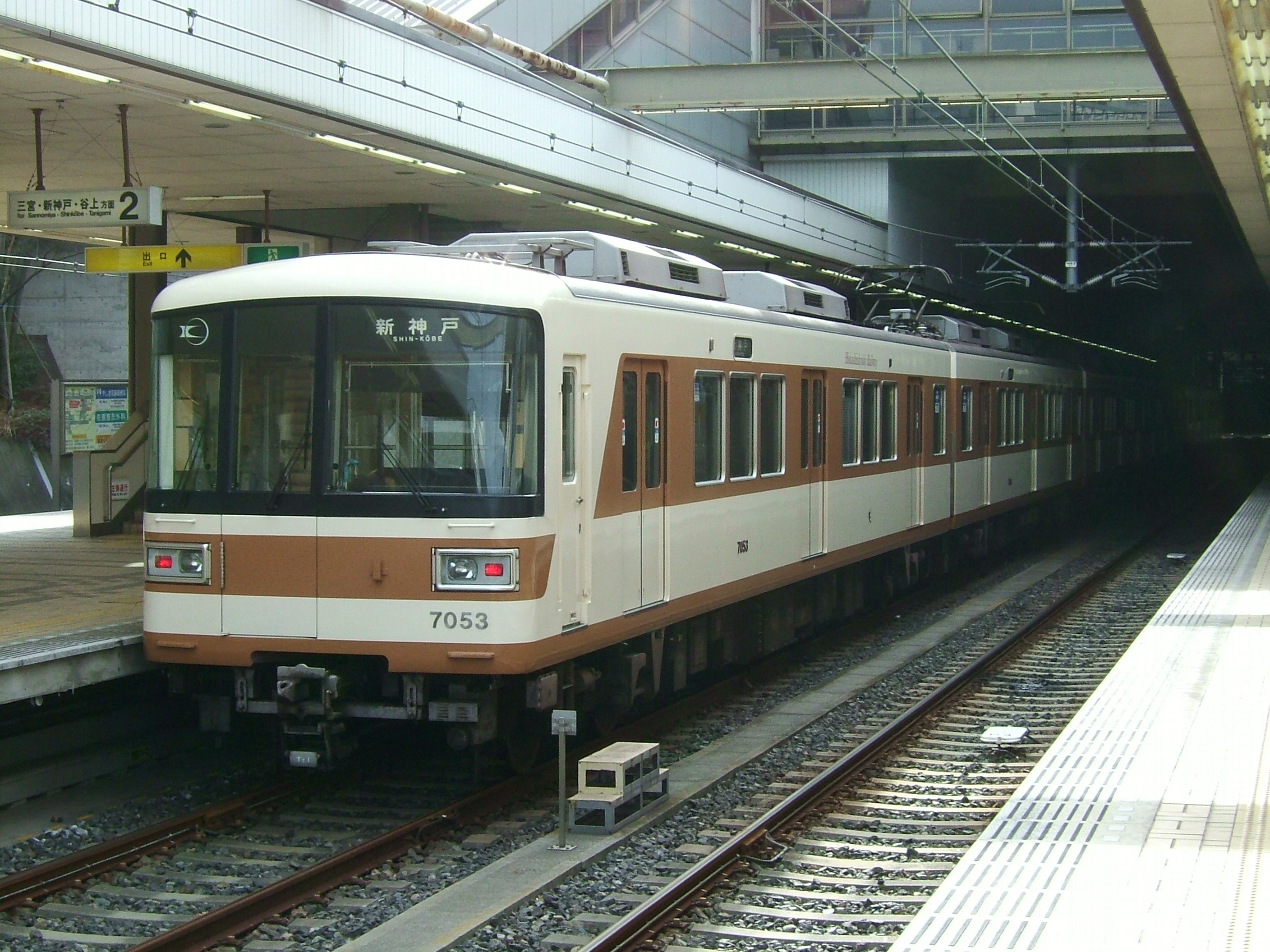 Hokushinkyuko Railway series 7000